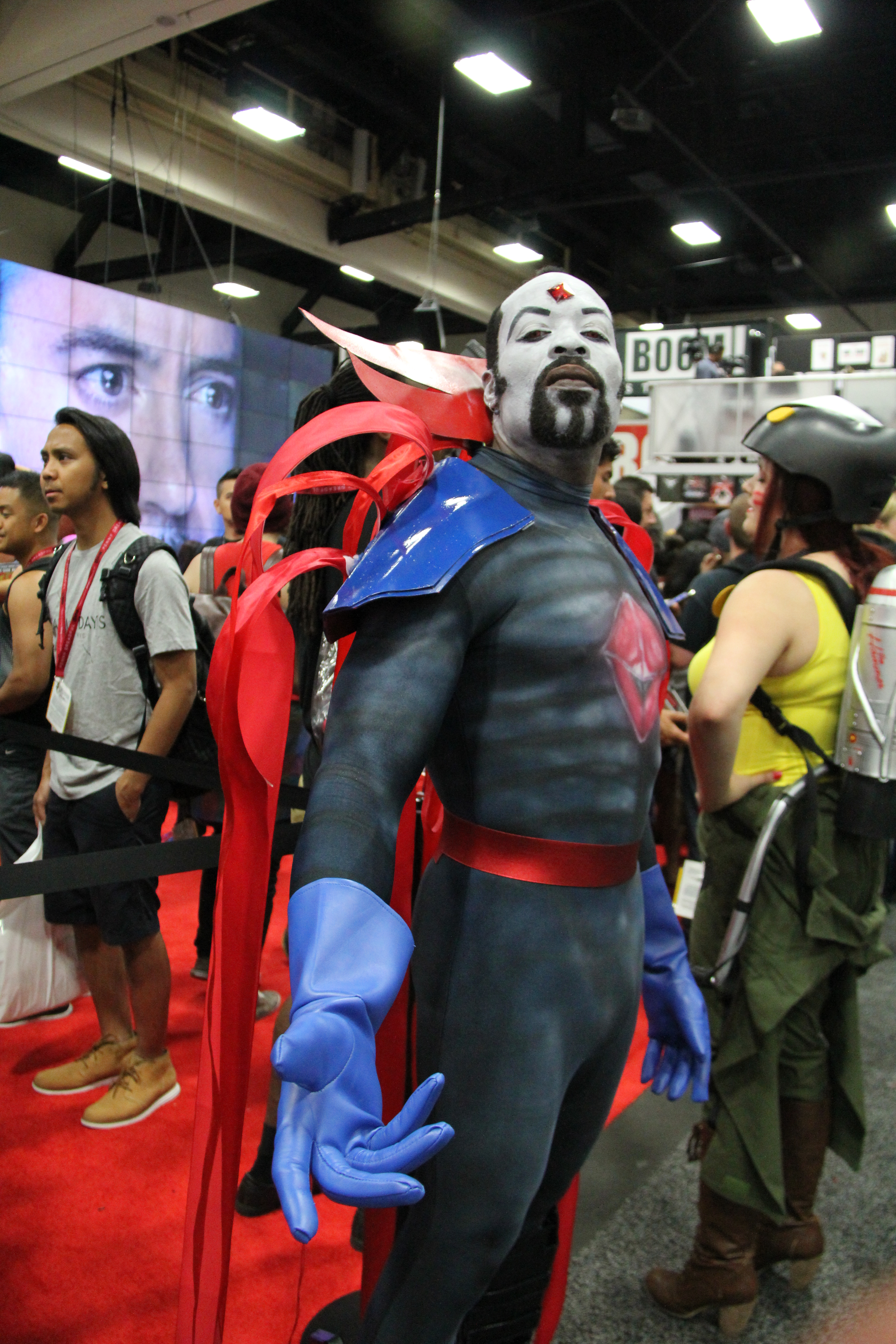 A cosplay of Mr. Sinister Cosplay at San Diego Comic-Con (SDCC 2014).